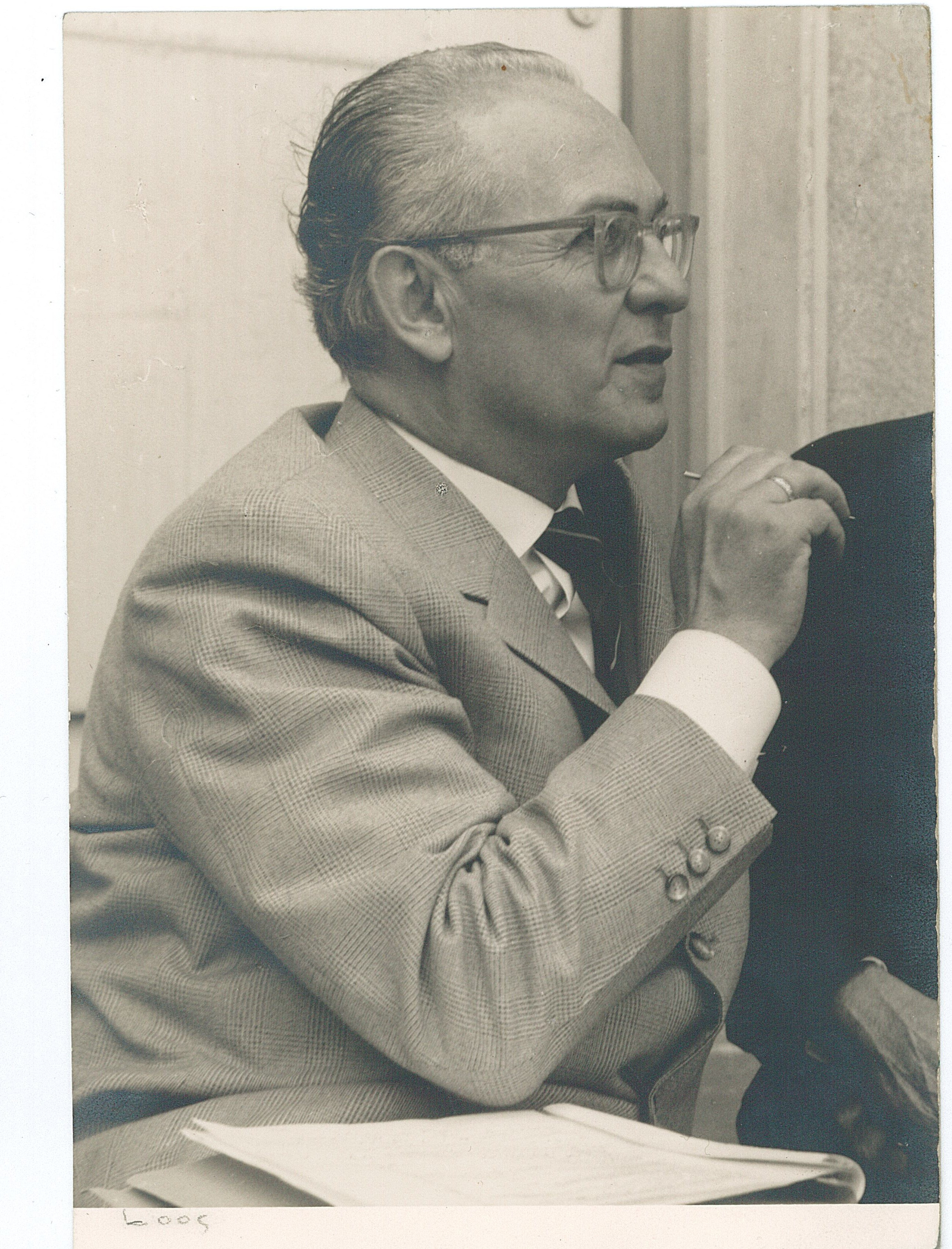 German writer Walter Schmiele, 1955